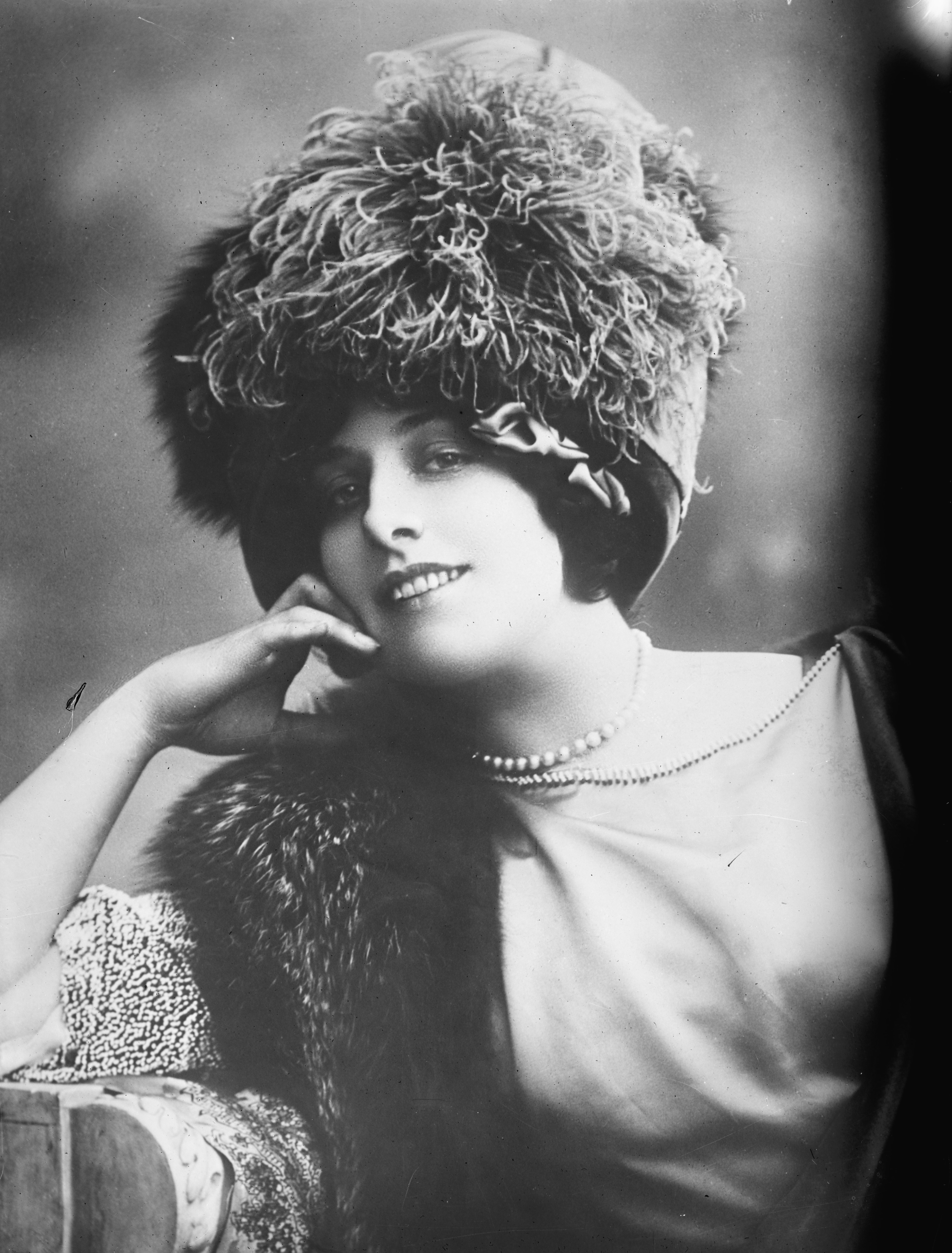 Geraldine Farrar wearing feathered hat